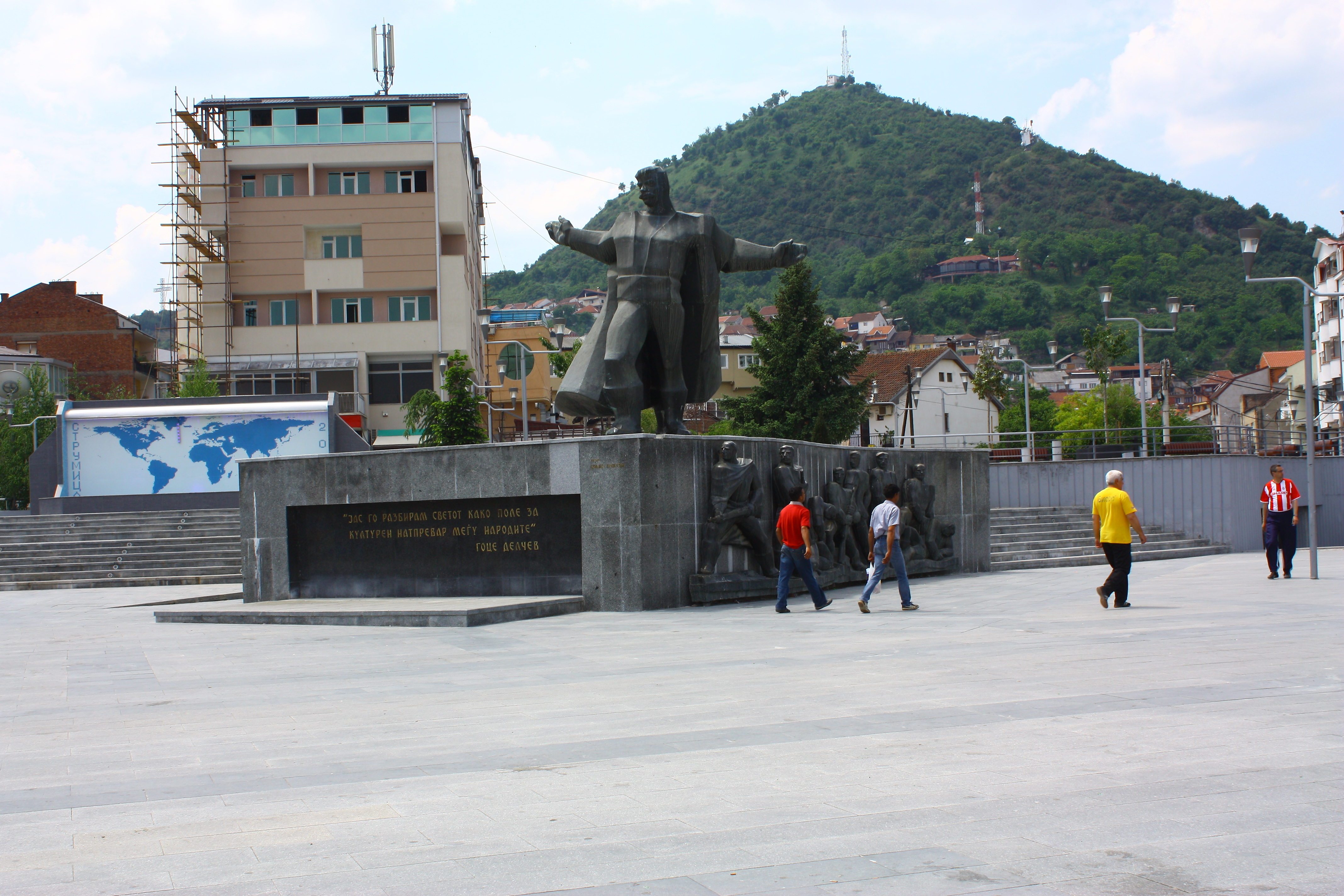 Strumica, Macedonia